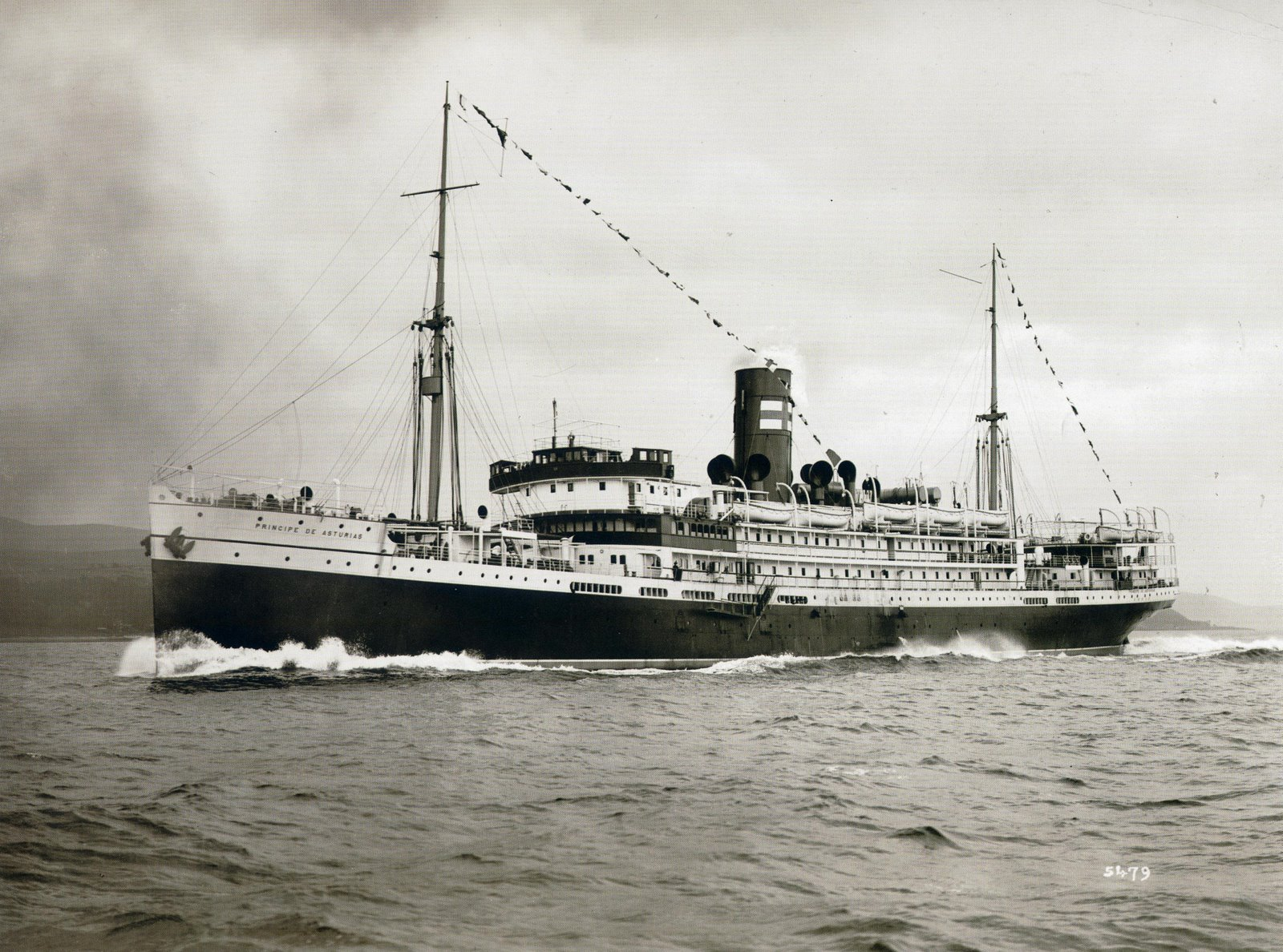 The ocean liner Príncipe de Asturias during its sea trials on Clyde River, in Glasgow.